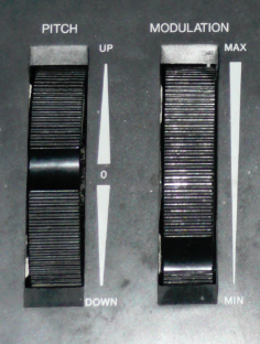 Pitch Bend Wheel